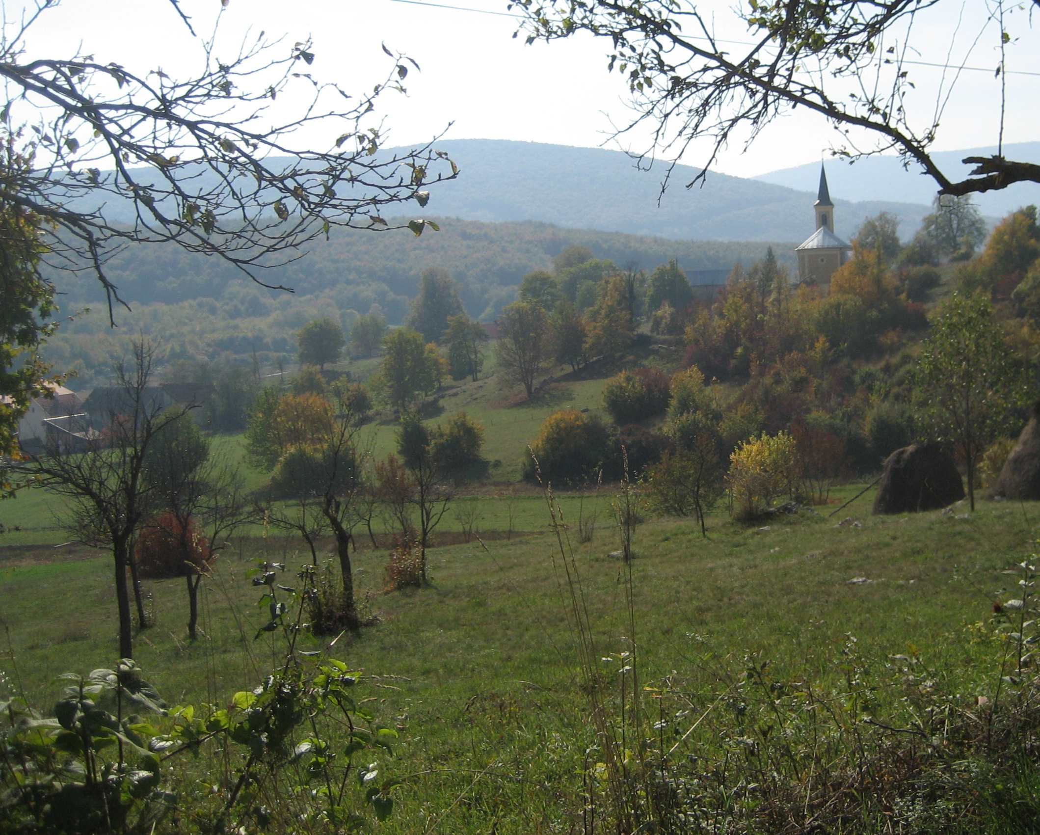 Landscape near Kuterevo, Croatia